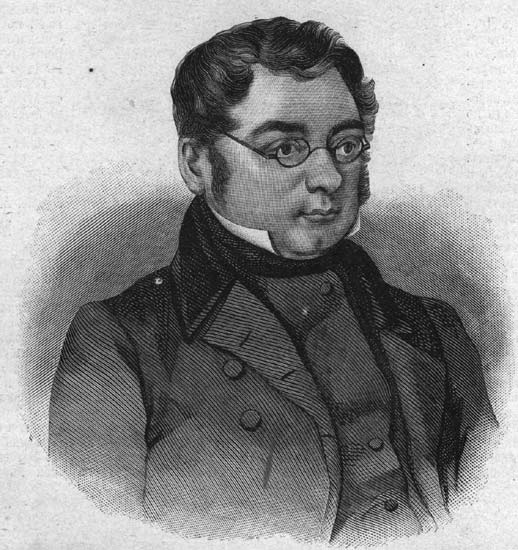 Mikhail Zagoskin